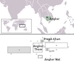 Location of temple Preah Khan